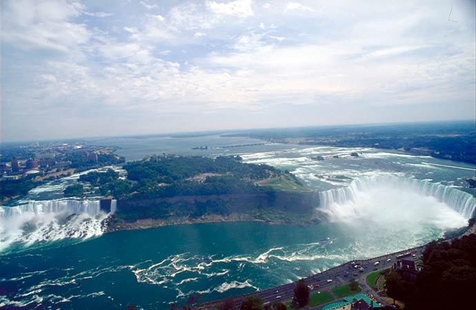 Niagara Falls - view from Skylon Tower